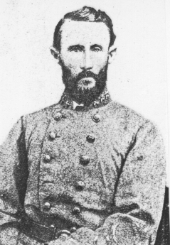 Col. Alfred Marmaduke Hobby, 8th Texas Infantry, CSA